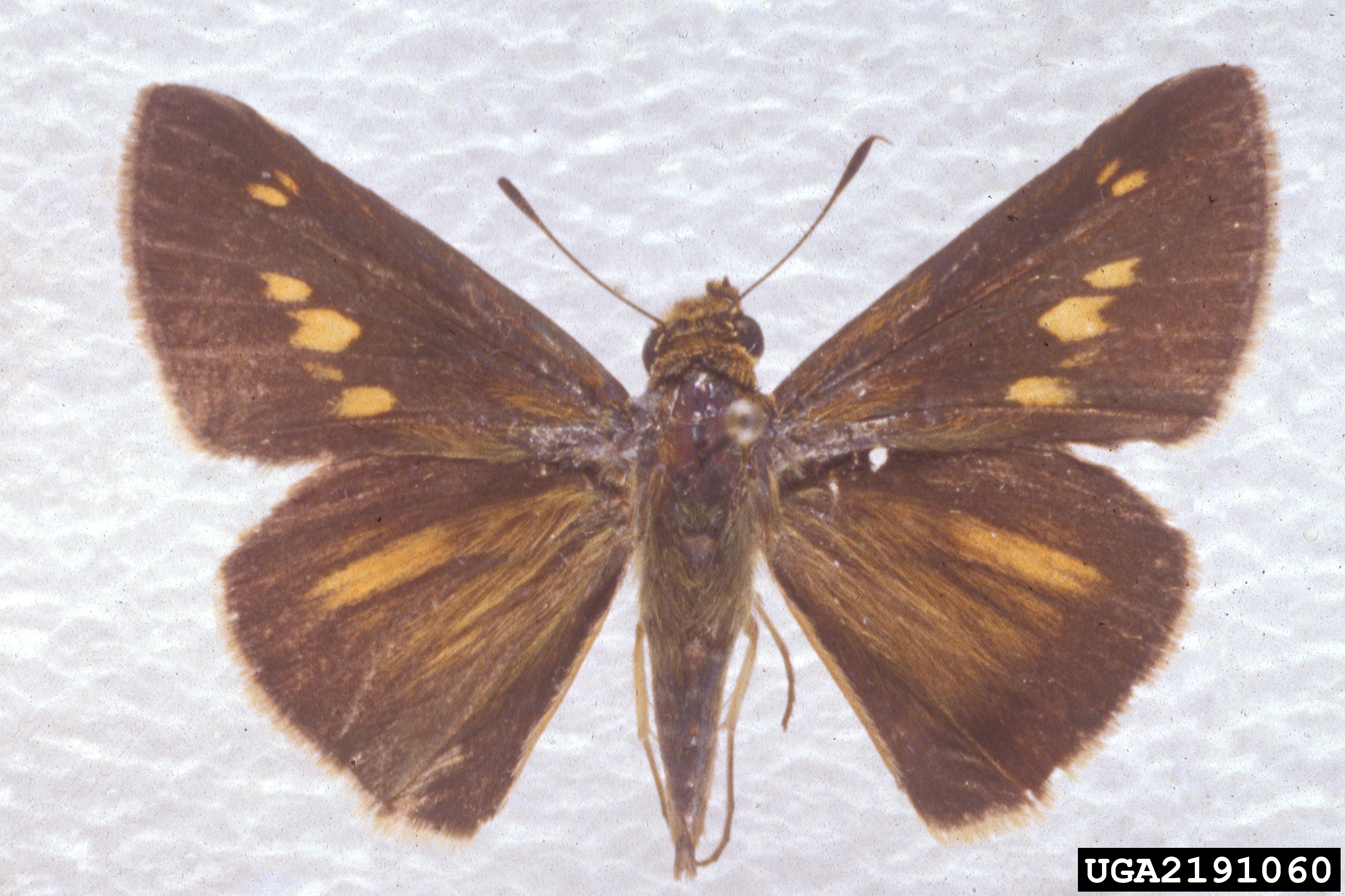 Euphyes dion. Sunflower County, Moorhead, Mississippi, United States.